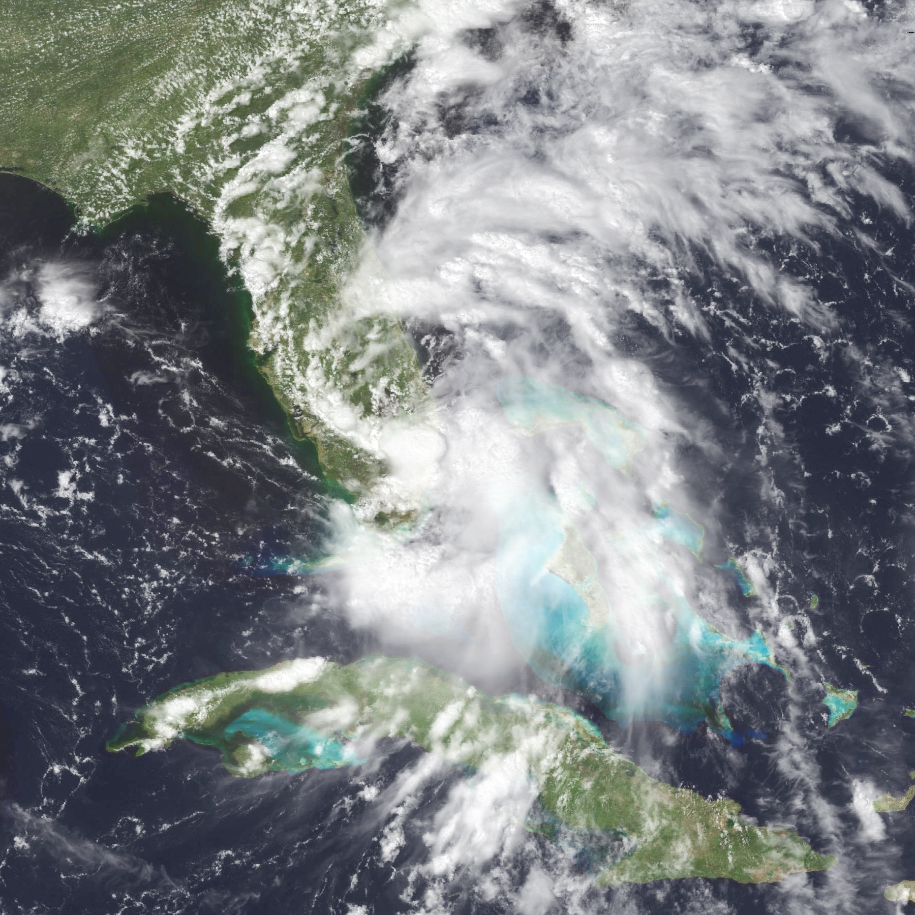 Tropical Storm Jerry just east of the Florida Keys on August 23, 1995